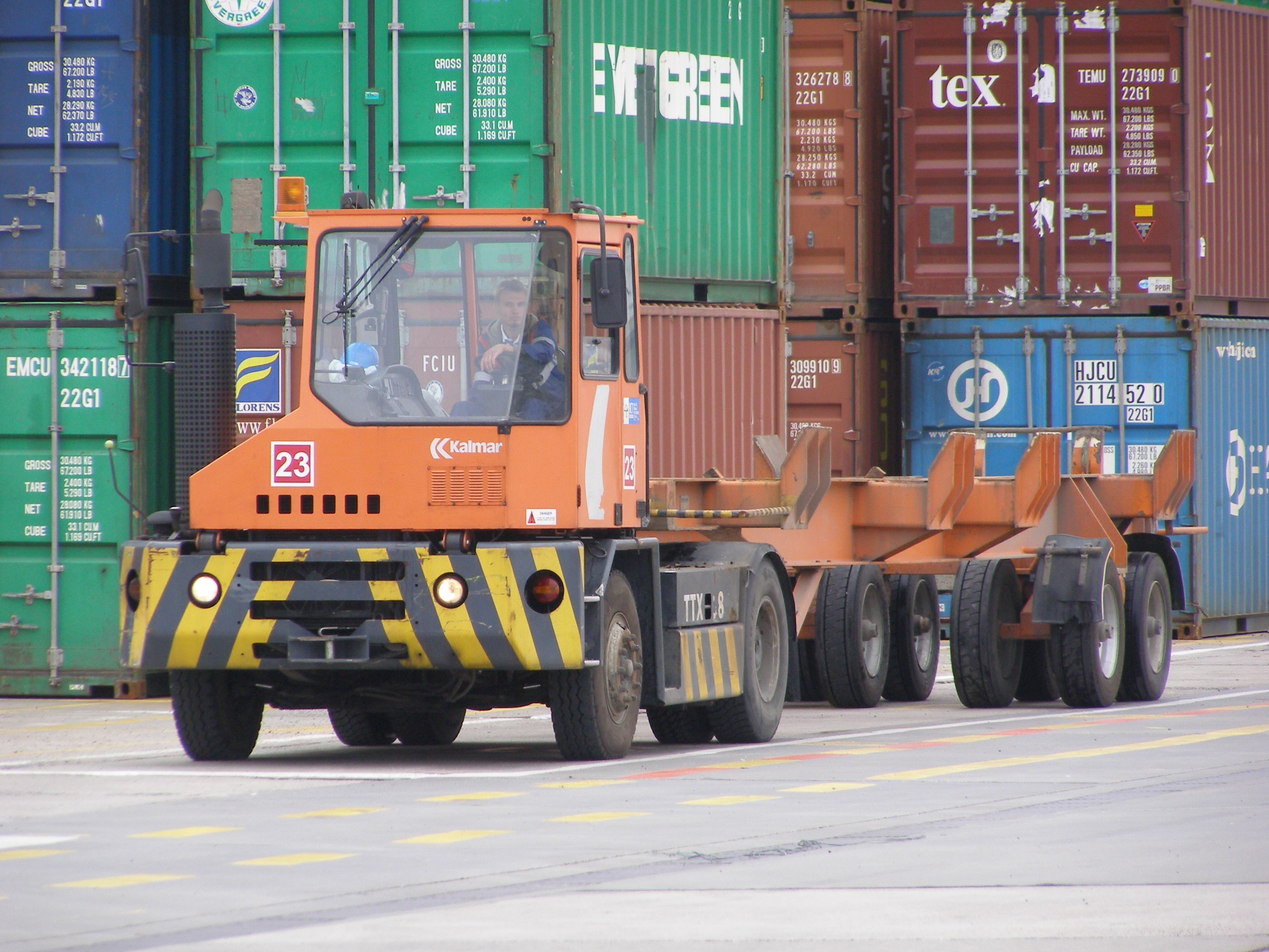 Gdynia - Baltic Container Terminal